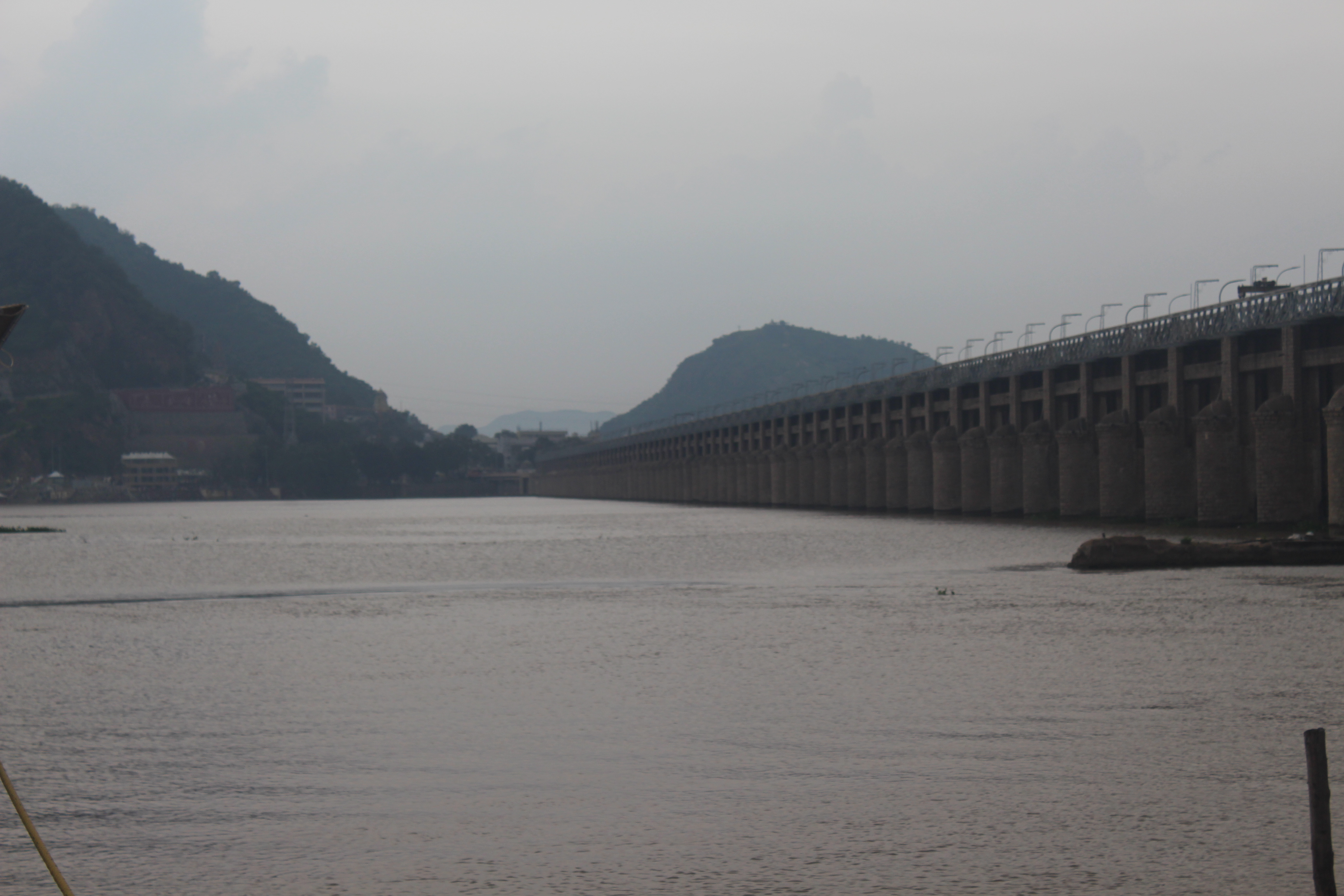 The structure of the Prakasam Barrage stretches 1223.5 m across the Krishna River connecting Krishna and Guntur districts. The barrage serves also as a road bridge and spans over a lake.